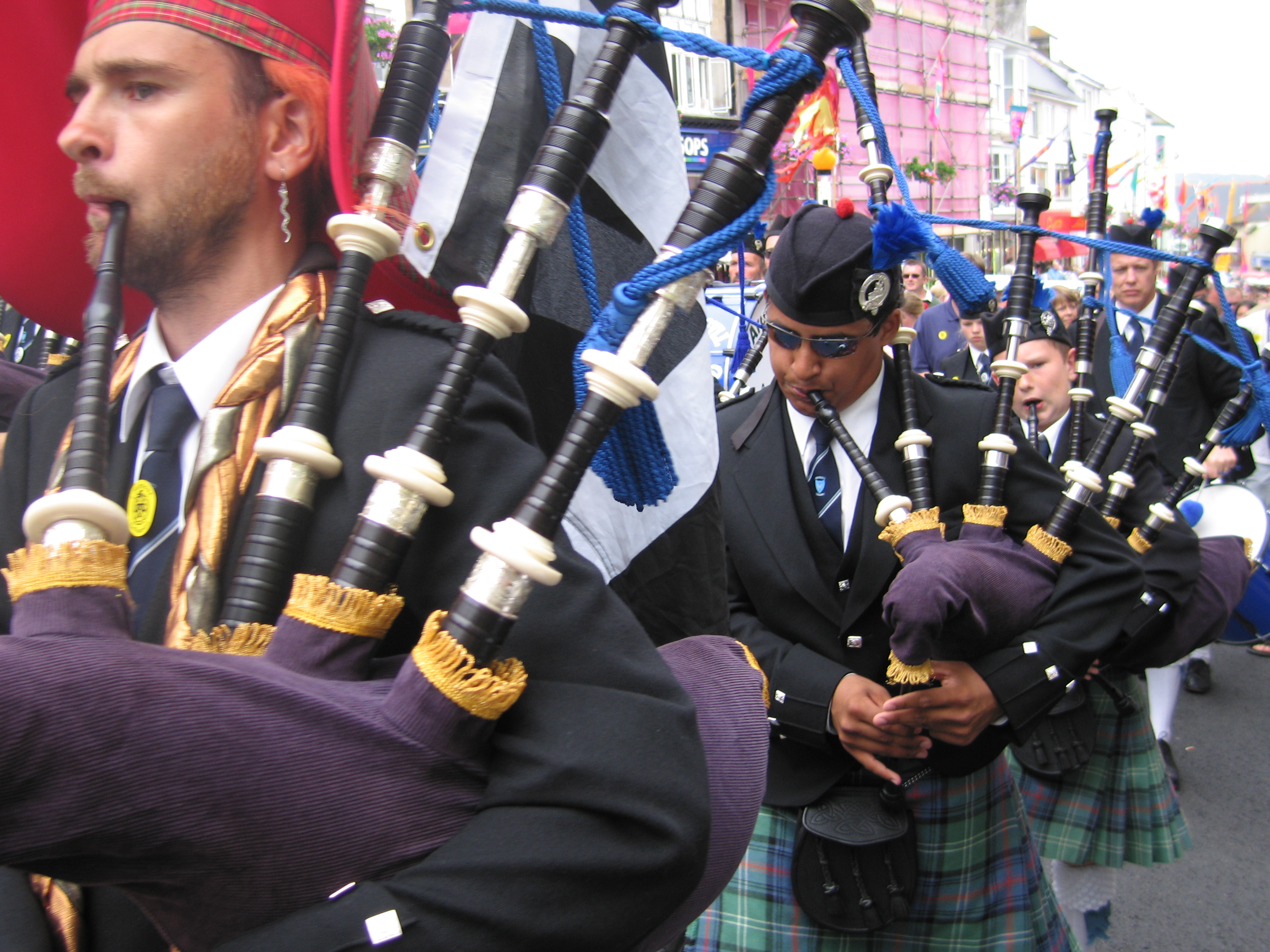 Close up photo taken as the Mid Argyl pipe band march along Market Jew Street on Mazey Day at the Golowan festival in Penzance[1]. More information about the festival is at [2]